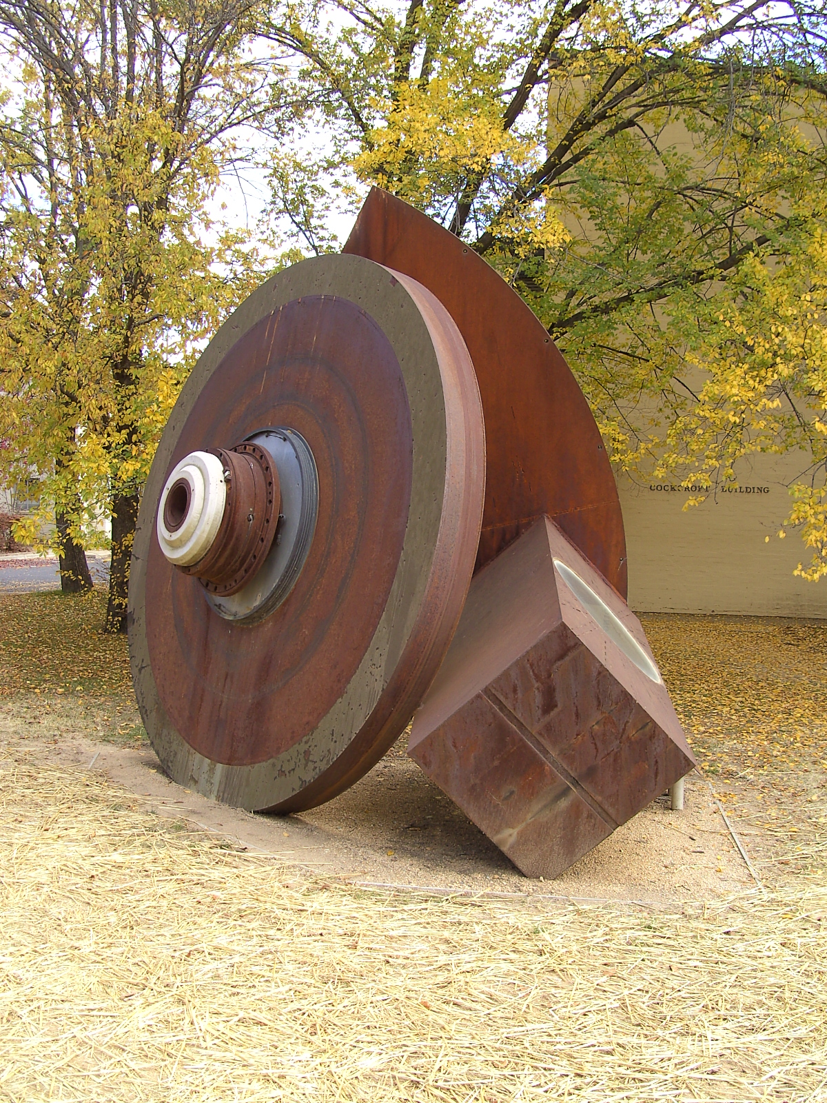 Rotator from the Canberra Homopolar Generator, developed during 1951-1964 at the Research School of Physical Sciences, Australian National University, under the direction of Sir Mark Oliphant. The CMG was dismantled in 1985. Certain parts were constructed into an artwork, and placed beside the school.